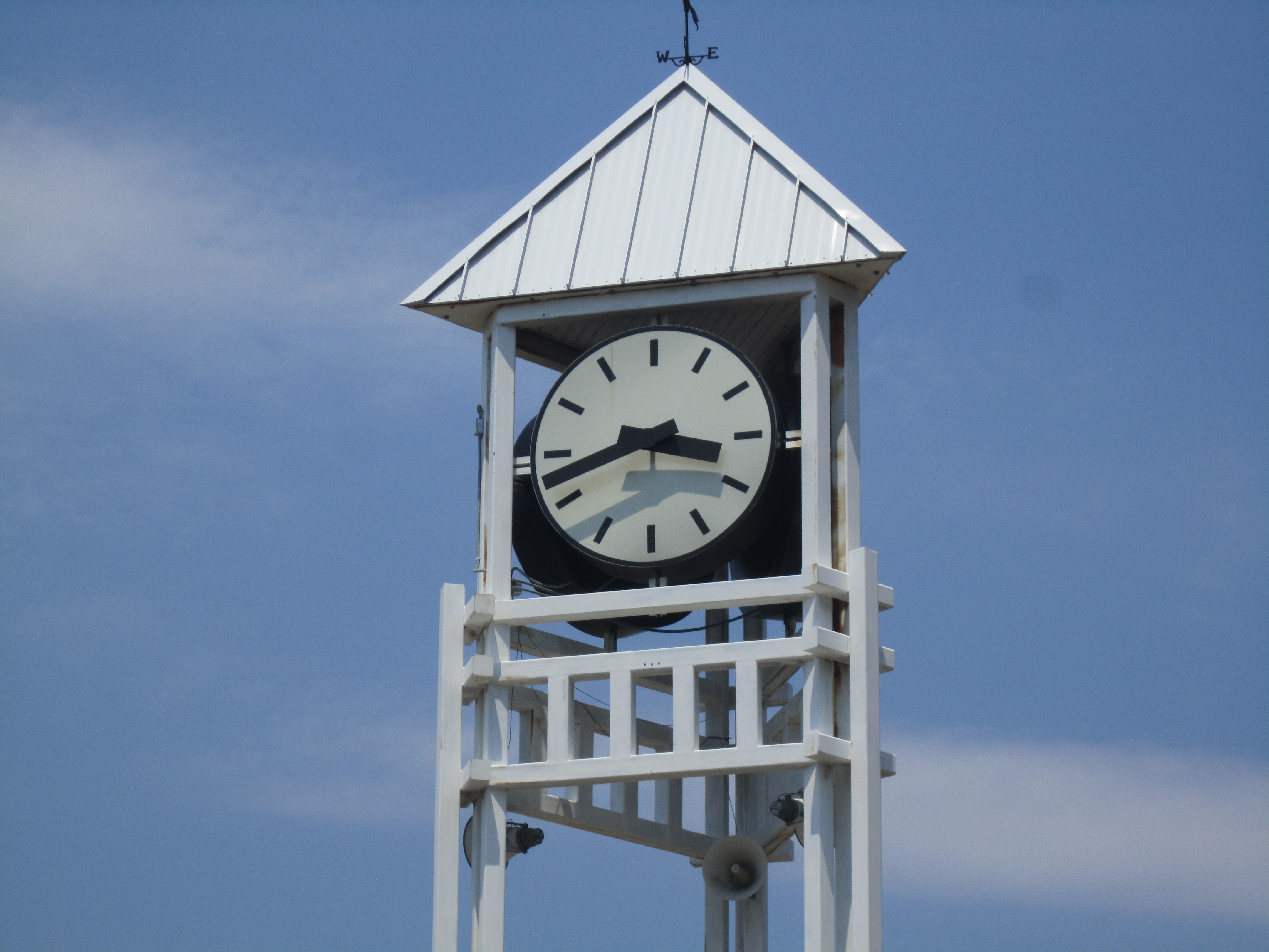 I took photo with Canon camera in Springhill, LA, of the town clock.